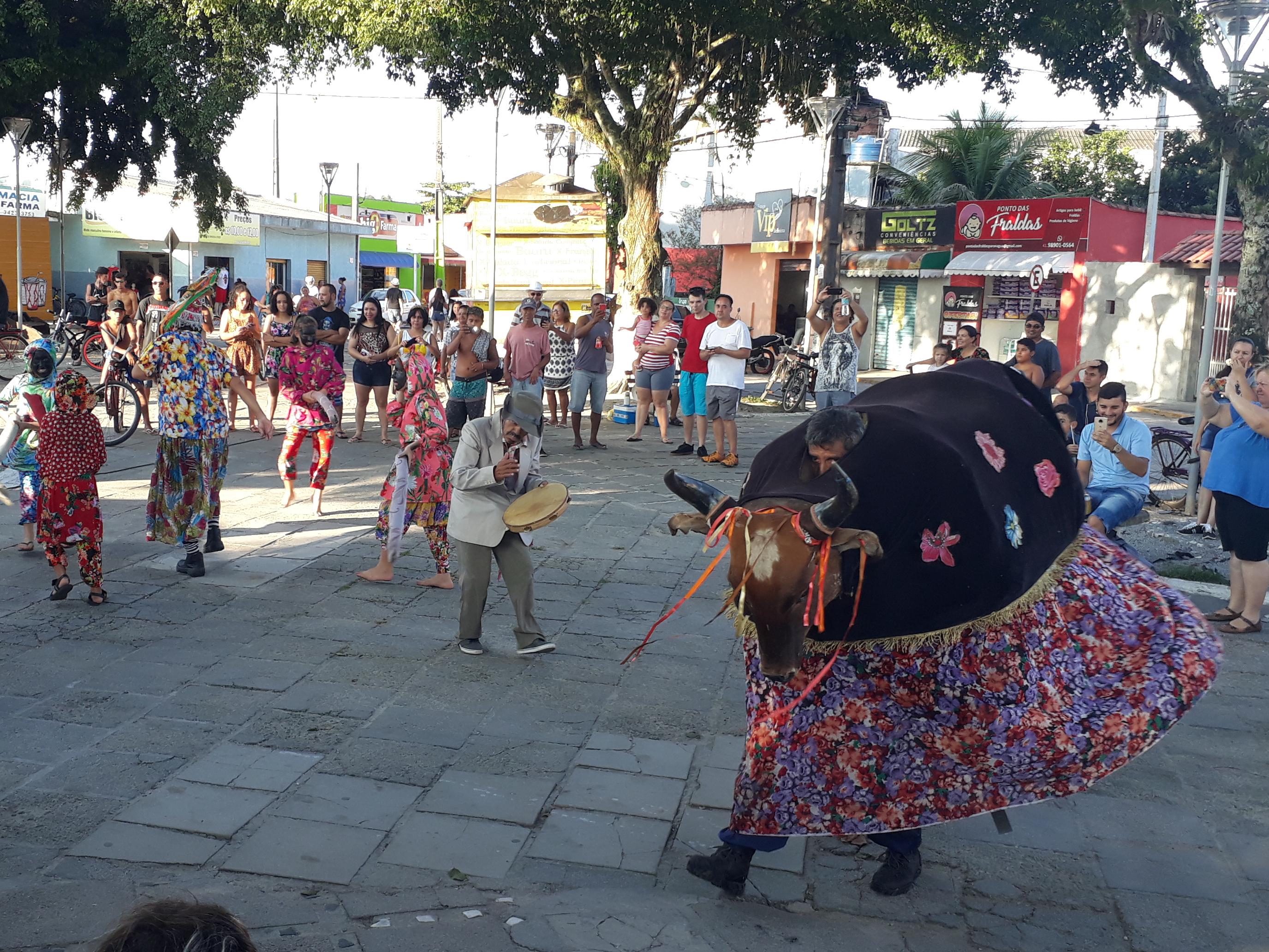 Public presentation of the folkloric group named "Mandicuera" of the city of Paranaguá, southern Brazil.